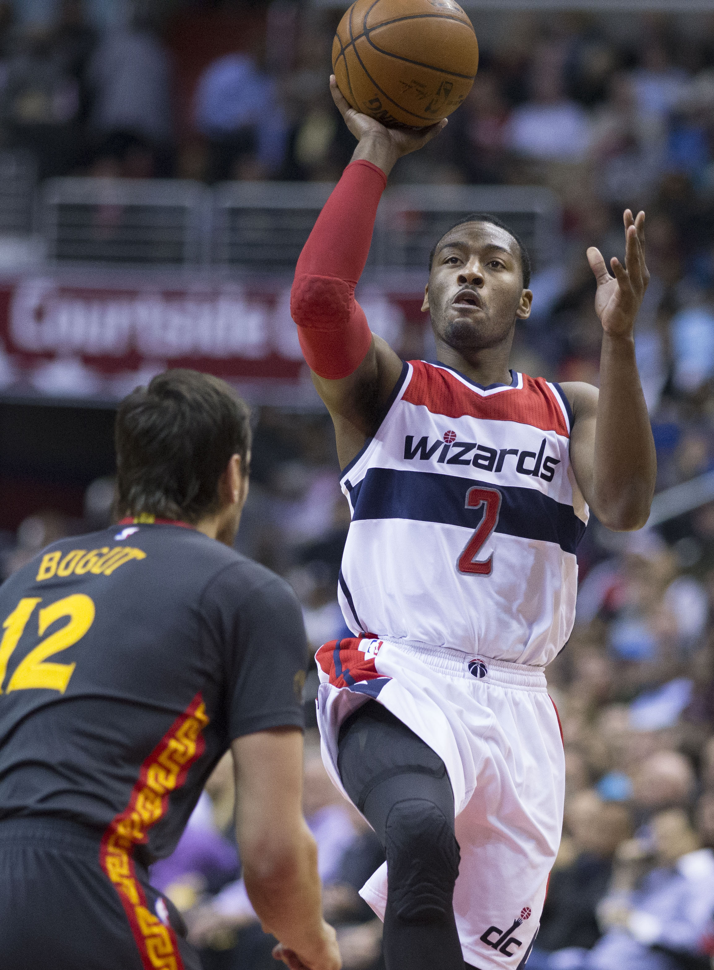 Warriors at Wizards 02/24/15